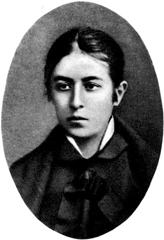 Vera Figner (1852-1942), Russian revolutionist